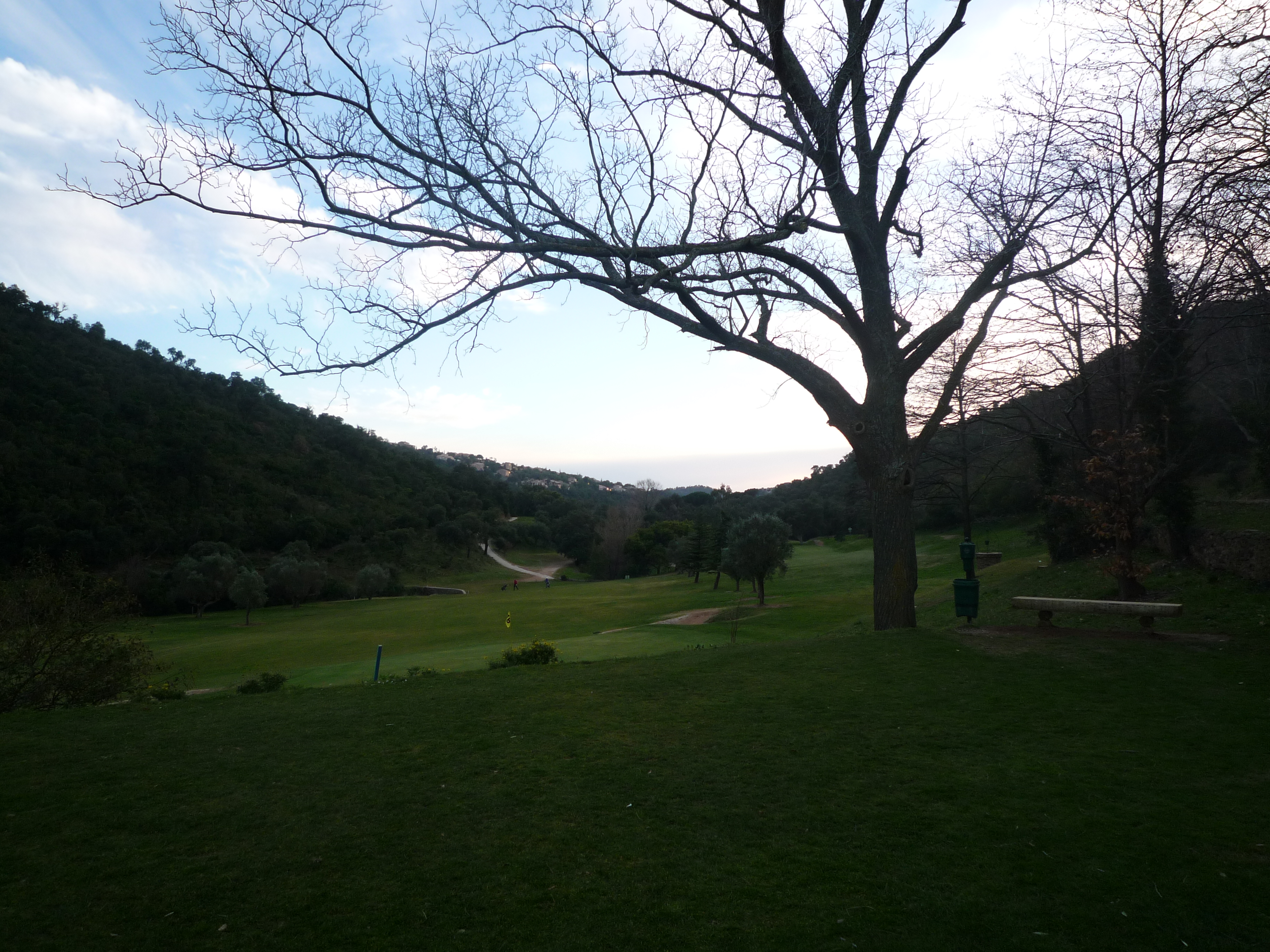 Golf course of Valcros